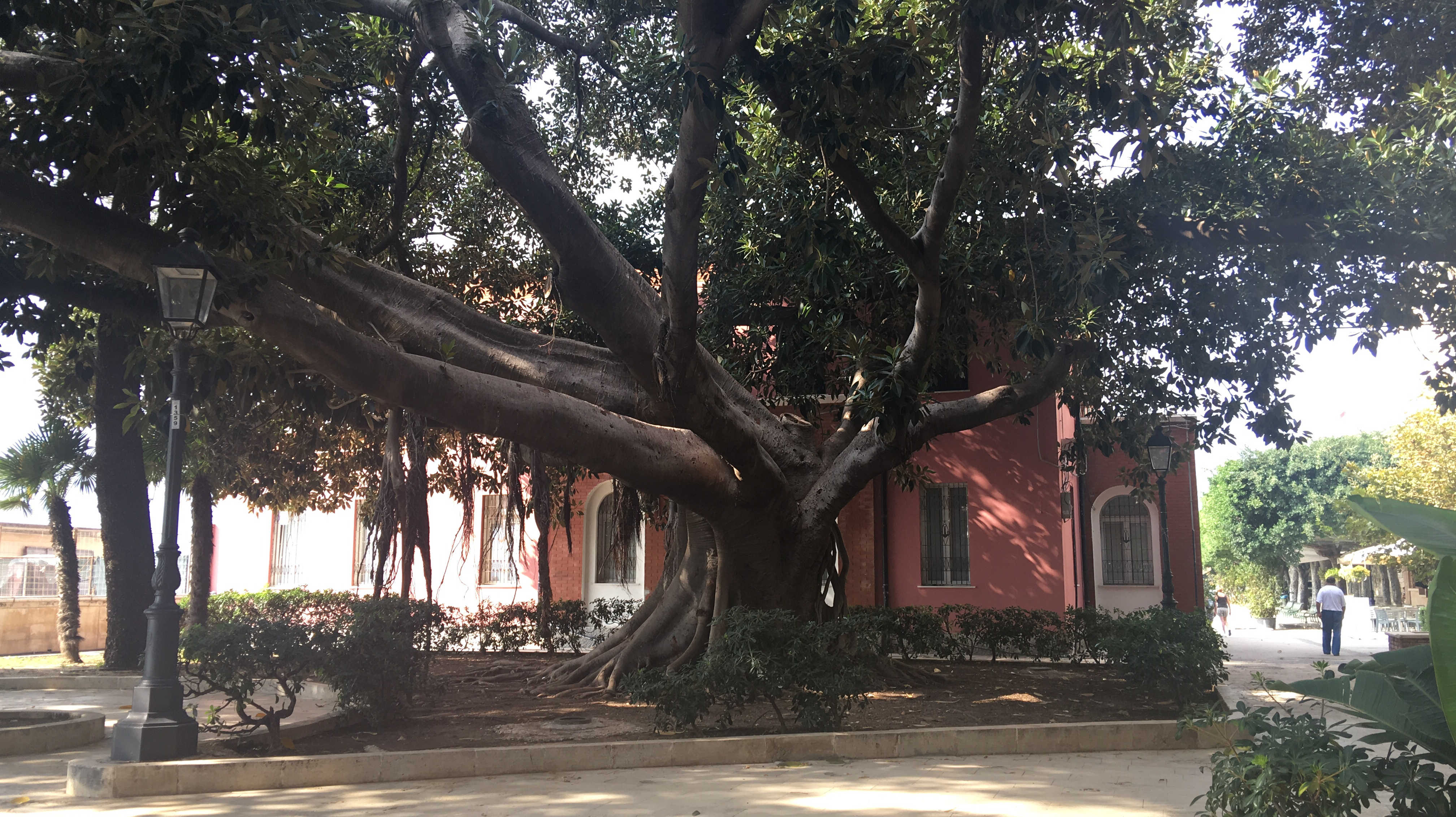 Ficus Ortigia, Syracuse